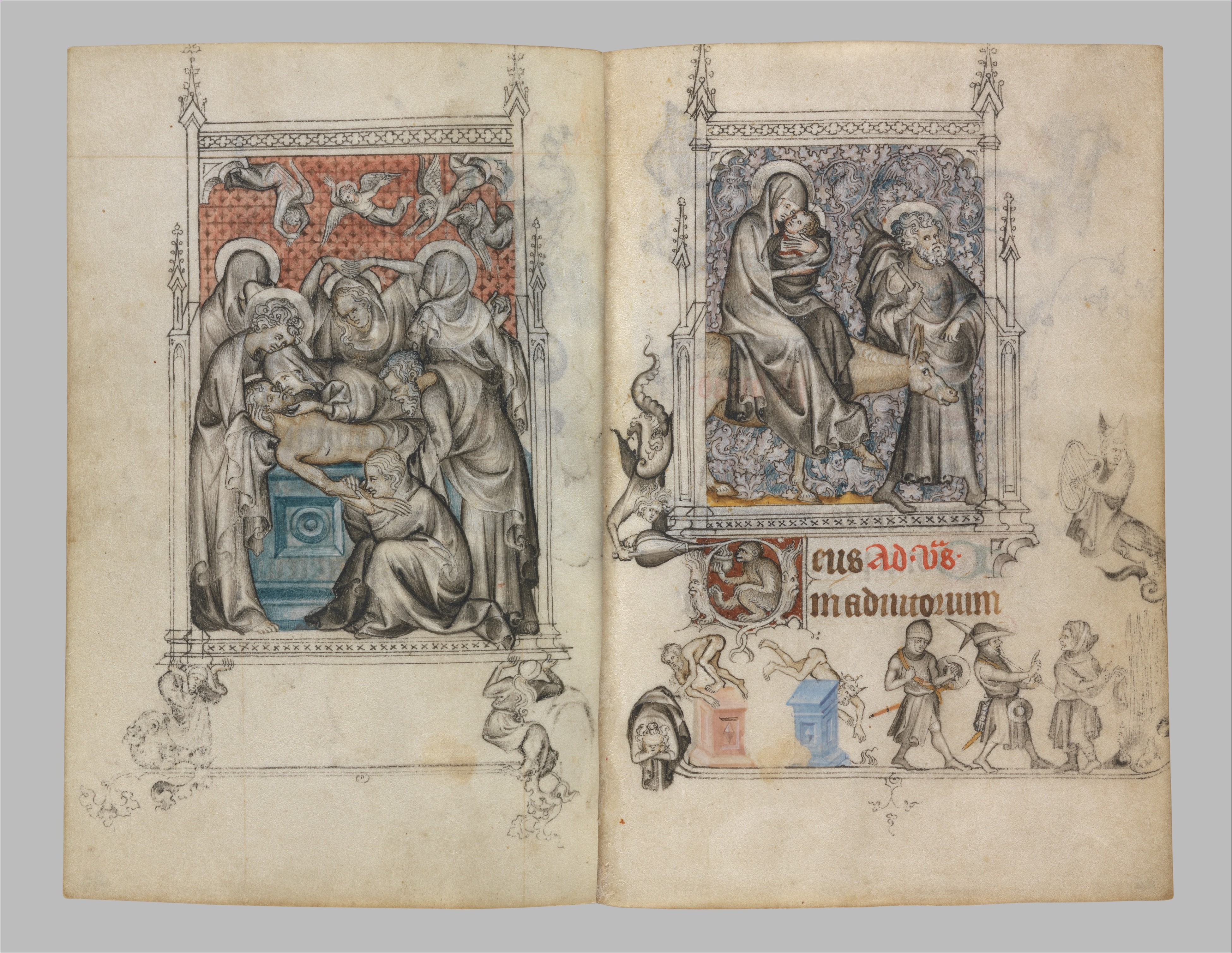 Jean Pucelle Hours of Jeanne d'Evreux. 1325-28, Metropolitan Museum, New-York